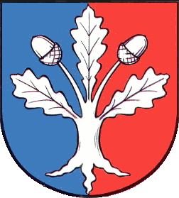 Coat of arms of the municipality Seeth-Ekholt in Schleswig-Holstein, Germany.